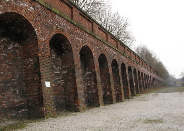 Batley Carr Station Former station site below the Leeds to Dewsbury main line.